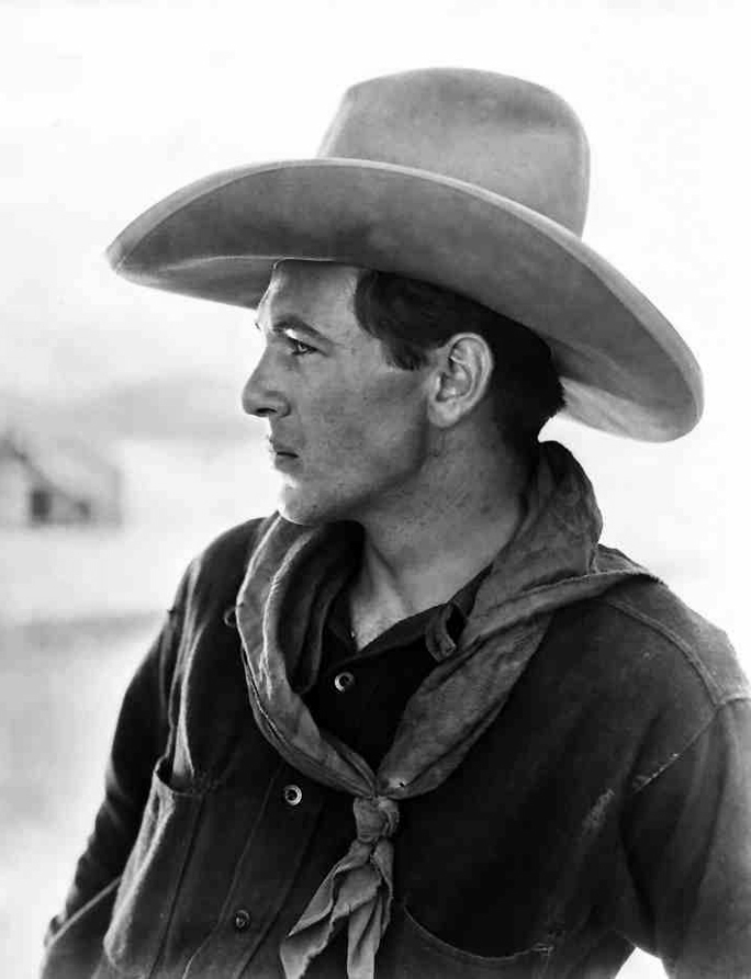 Gary Cooper in the American western film The Winning of Barbara Worth (1926).